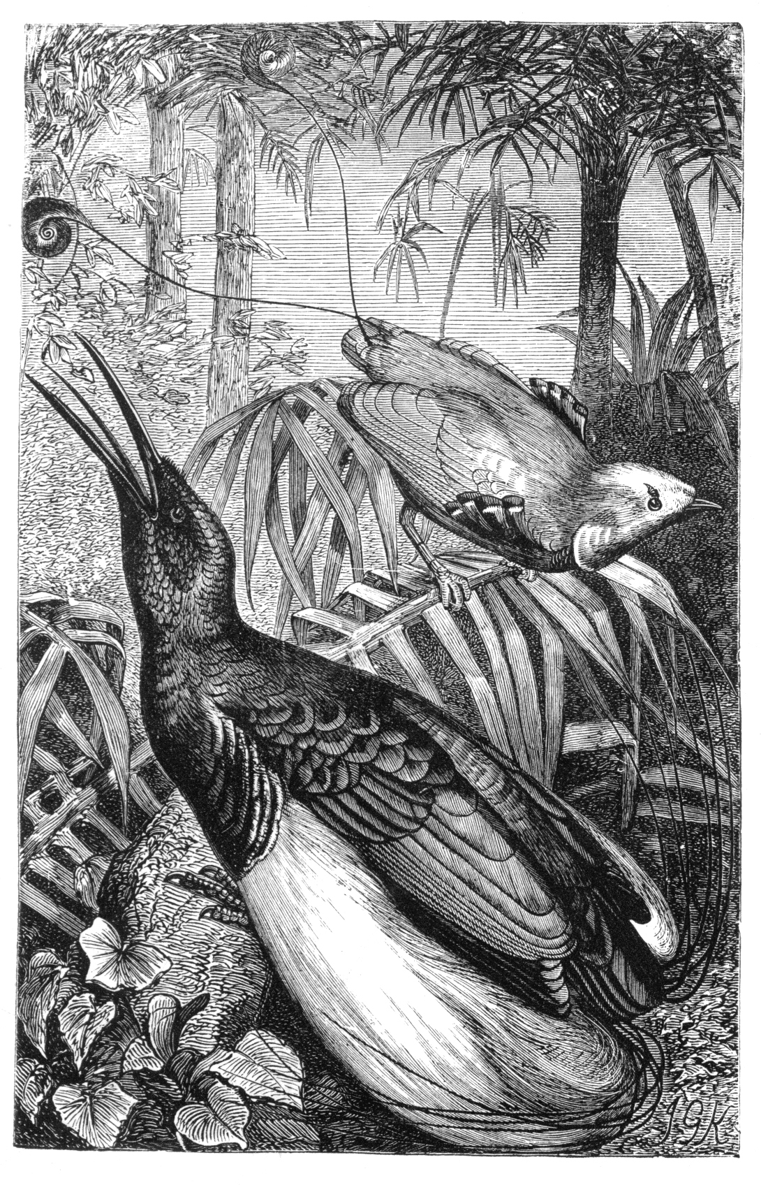 Caption reads "THE "KING" AND THE "TWELVE WIRED" BIRDS OF PARADISE" (Cicinnurus regius and Seleucidis melanoleucus)